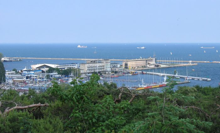 Marina in Gdynia - author: Rafal Konkolewski Summer 2004